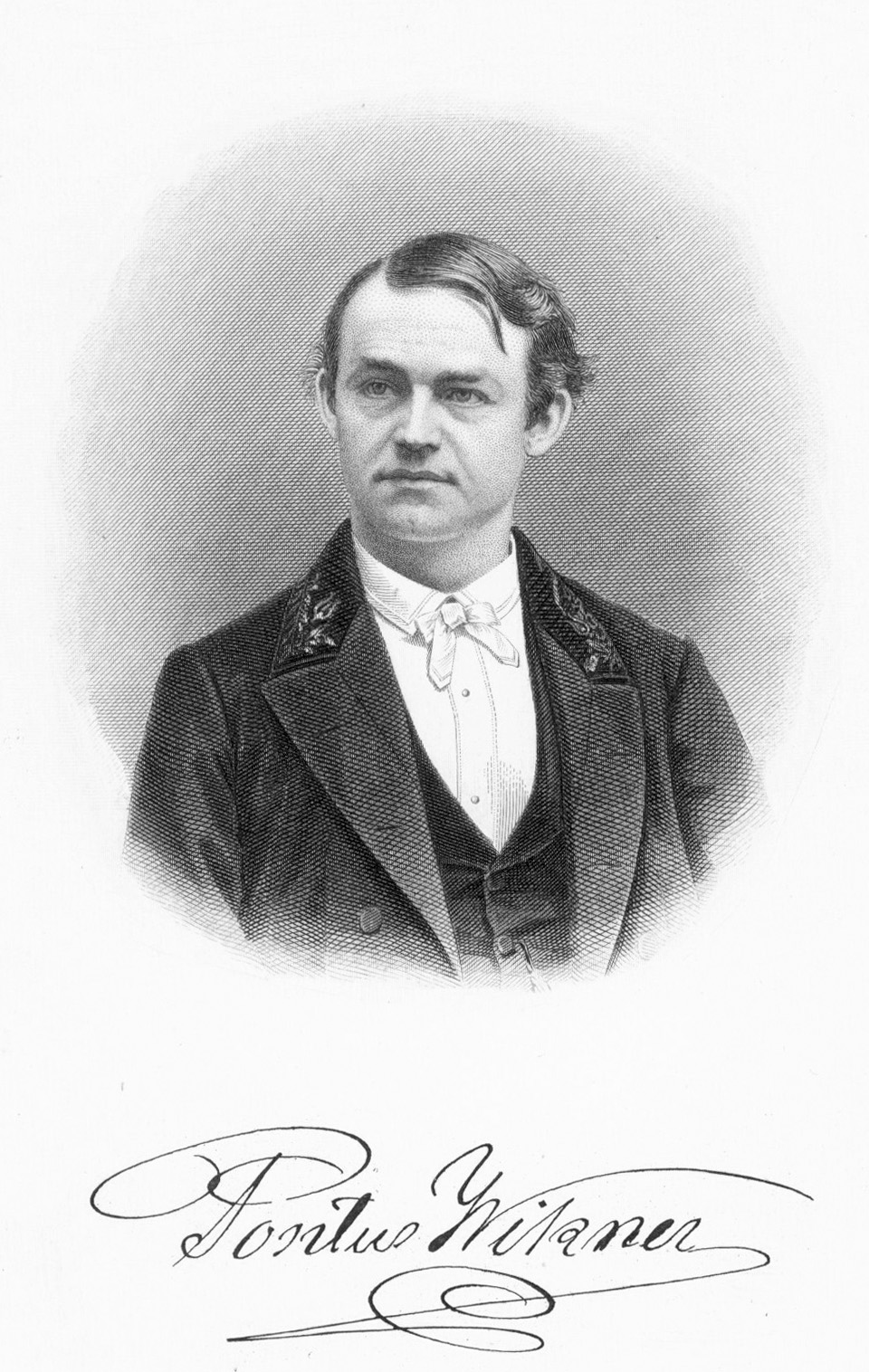 Swedish philosopher and professor Pontus Wikner (1837-1888).